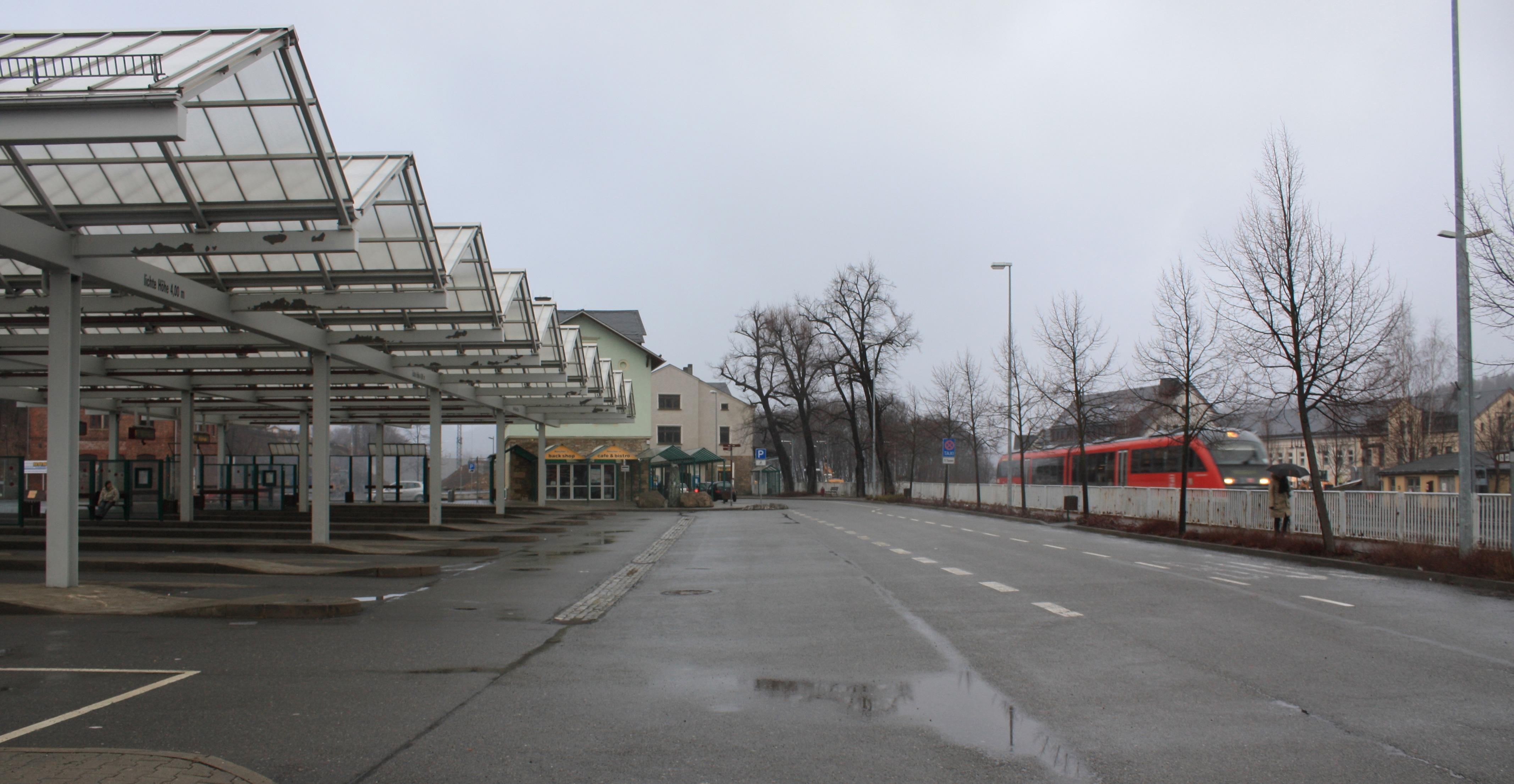 Schwarzenberg Bus Terminal